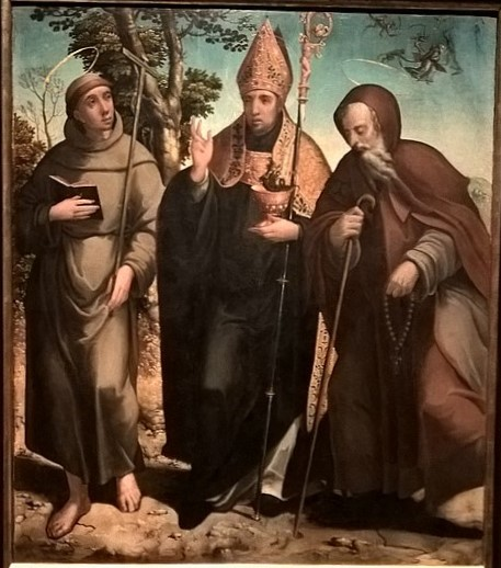 Santo António, S. Bento e Santo Antão panel from the ancient Campanário´s S. Brás Church Retable, circa 1545-50, of the portuguese painter Diogo de Contreiras. Today at the Museu de Arte Sacra do Funchal, Madeira Island.